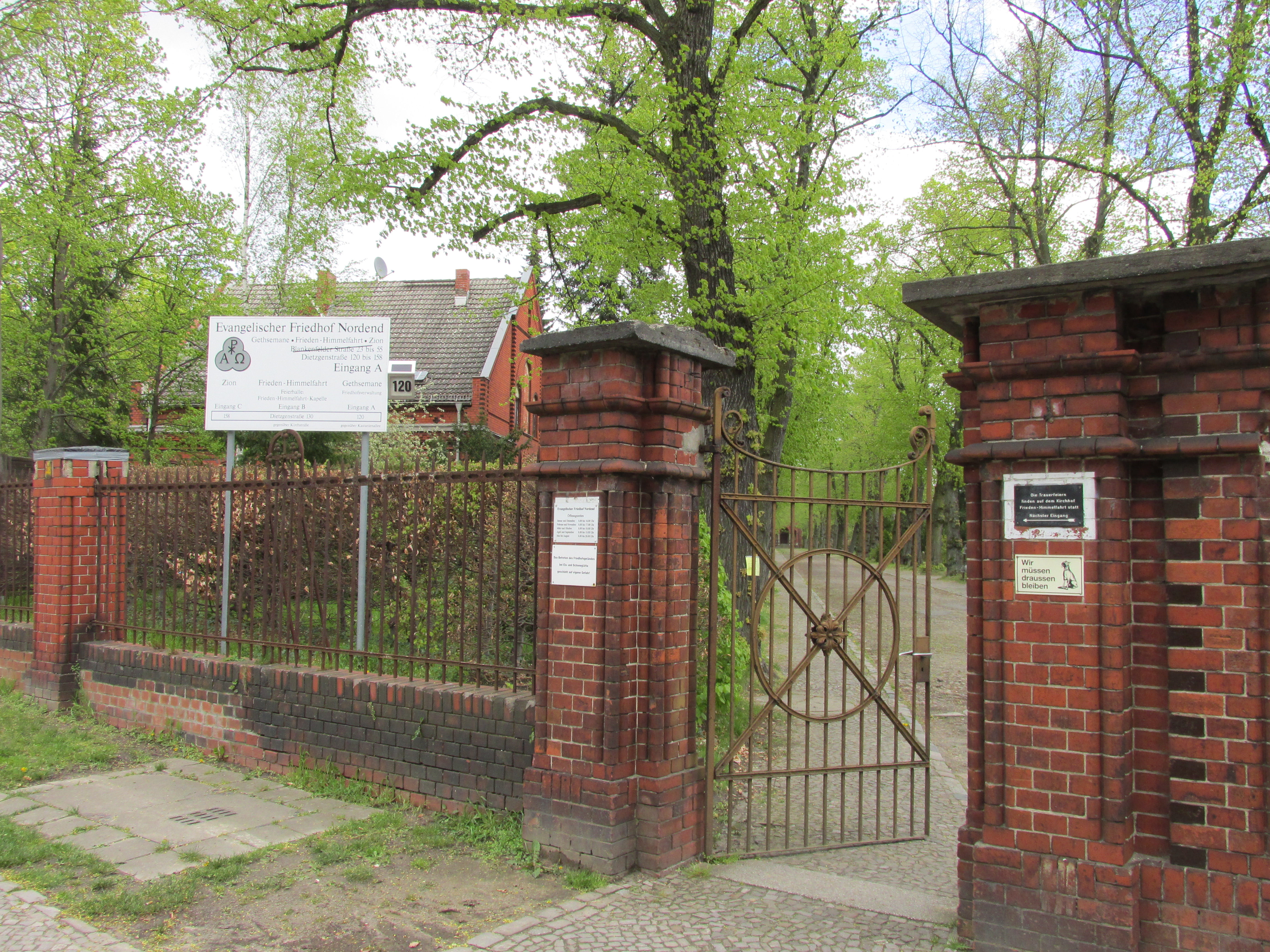 This is the entrance to the Friedhof Nordend in Berlin-Niederschönhausen.